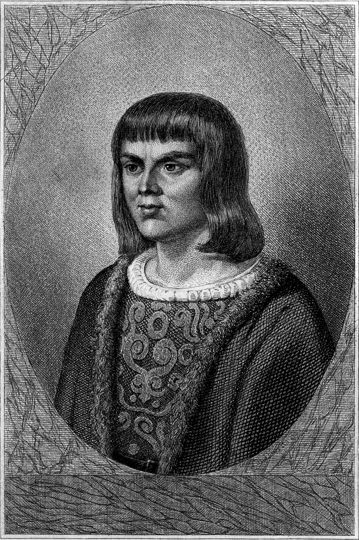 Alain Chartier (c. 1392-c. 1430), French poet and political writer.